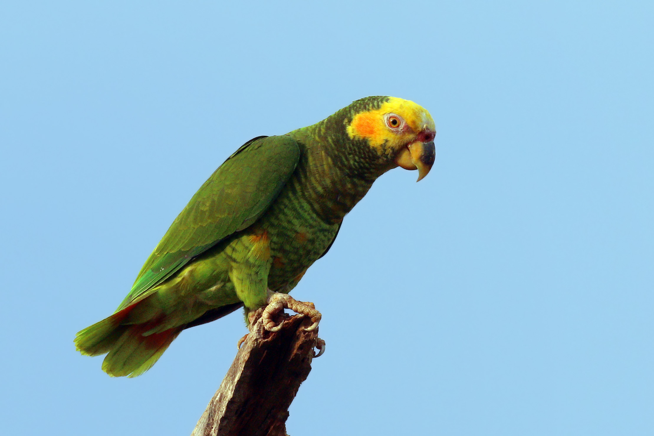 Yellow-faced parrot (Alipiopsitta xanthops) green morph, the Pantanal, Brazil